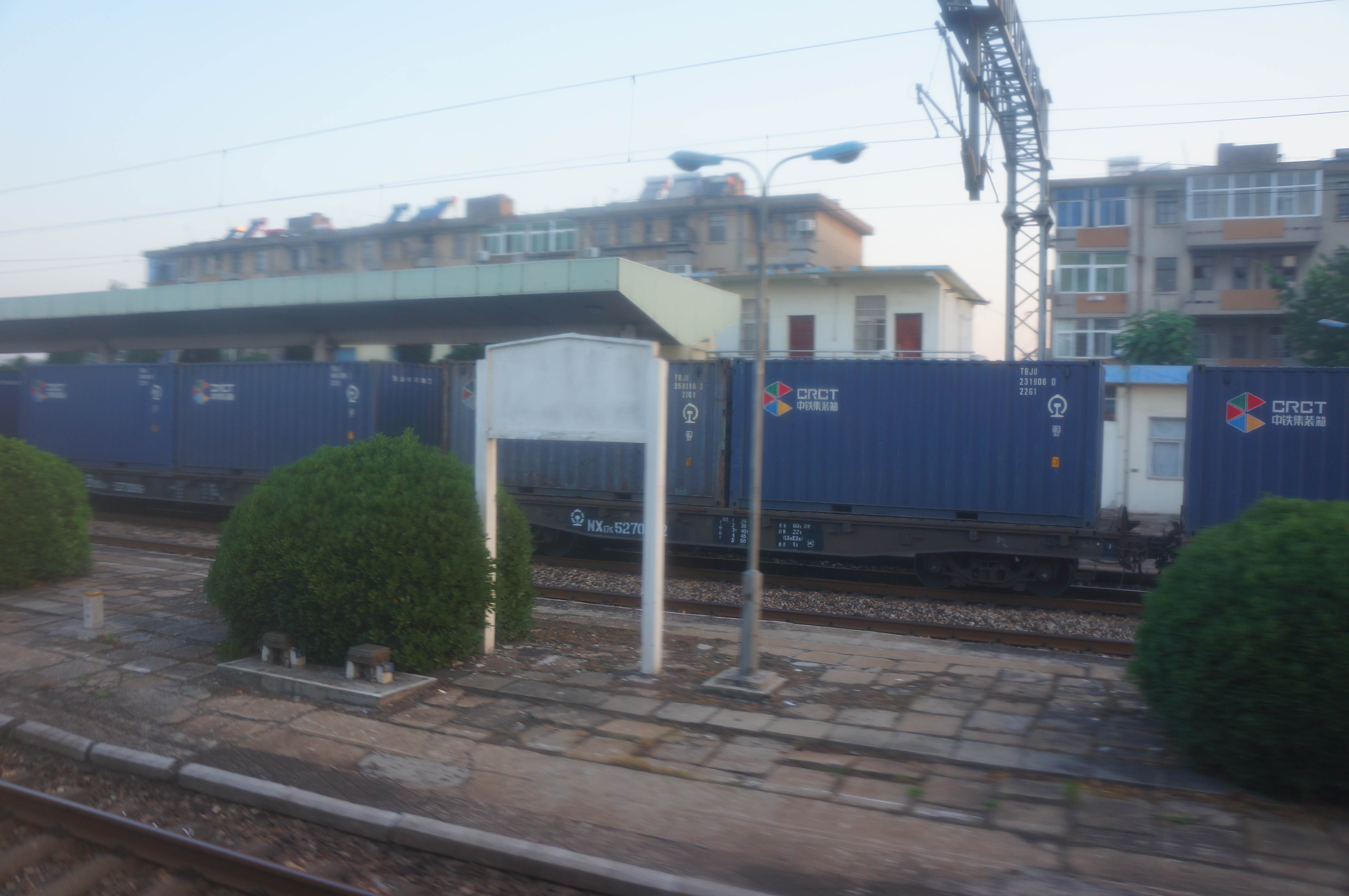 201705 "Nameboard" of Fengyang Station. Nothing presented.